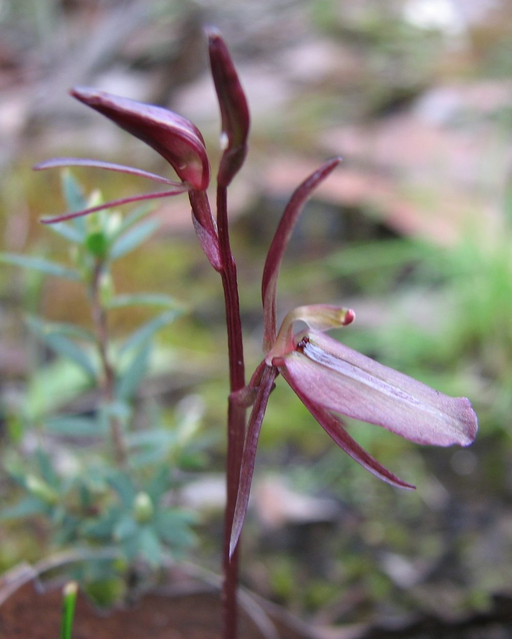 Cyrtostylis reniformis, Brisbane Ranges National Park, Victoria, Australia